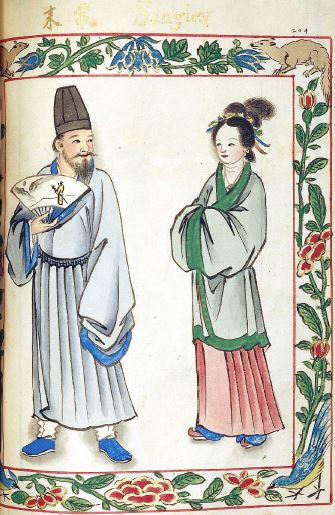 Sangley in Boxer Codex